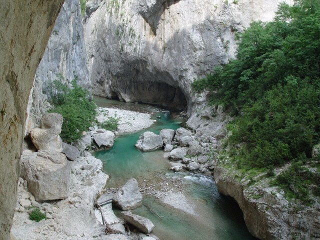 The Baume-aux-Pigeons. Luckily, that day the door was open.